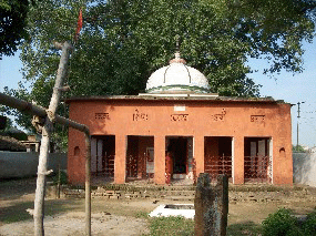 Kali Mandir